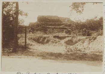 Excavations at Dool-om-Berg, Amersfoort